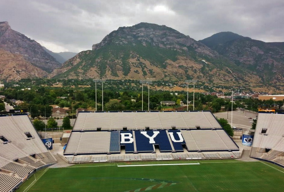 A view of Y Mountain in Spring from an empty LaVell Edwards Stadium at BYU